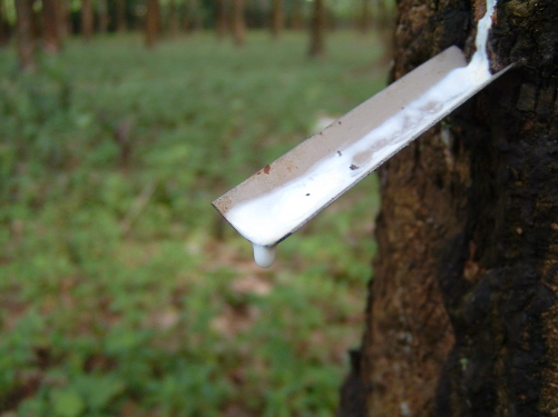 Latex being collected from a rubber tree